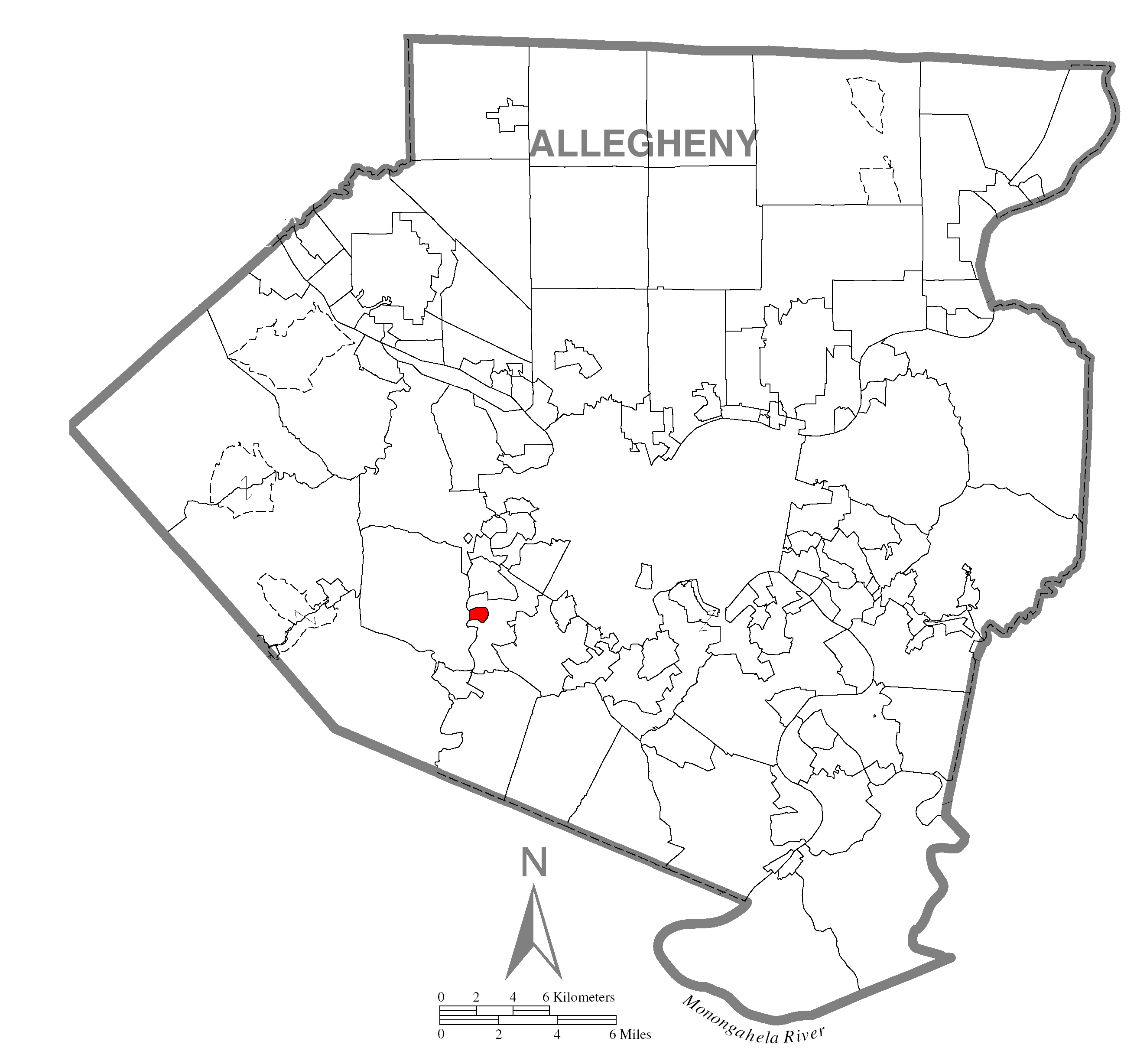 A map of Allegheny County showing Heidelberg, Pennsylvania (alternate) highlighted on the map.